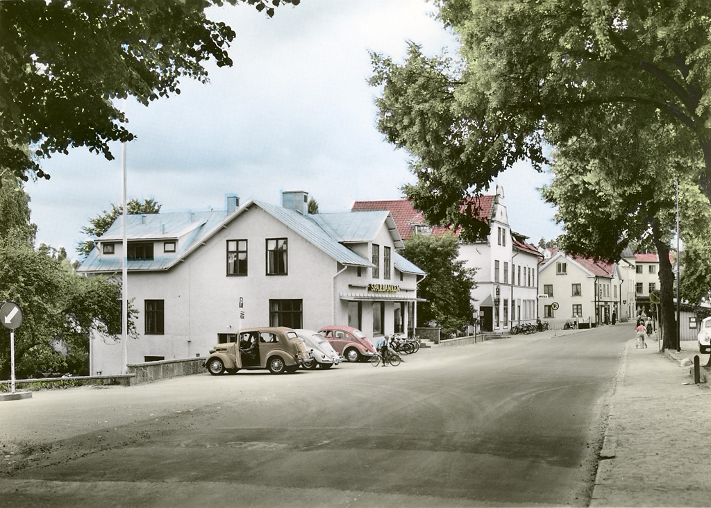 Loftagatan (Lofta Street) in Gamleby. Loftagatan i Gamleby. Parish (socken): Gamleby Province (landskap): Småland Municipality (kommun): Västervik County (län): Kalmar Photograph by: Unknown. Almquist & Cöster Date: 1940-1959 Format: Original postcard, tinted Persistent URL: Read more about the photo database (in english)